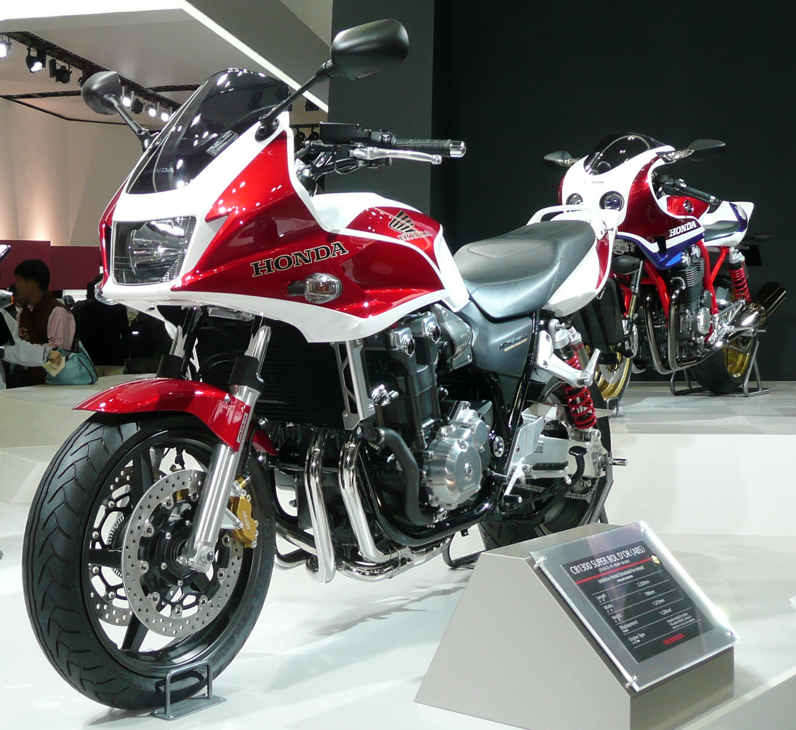 Honda CB1300 Super Bold'or ABS (2007 Tokyo Motor Show)